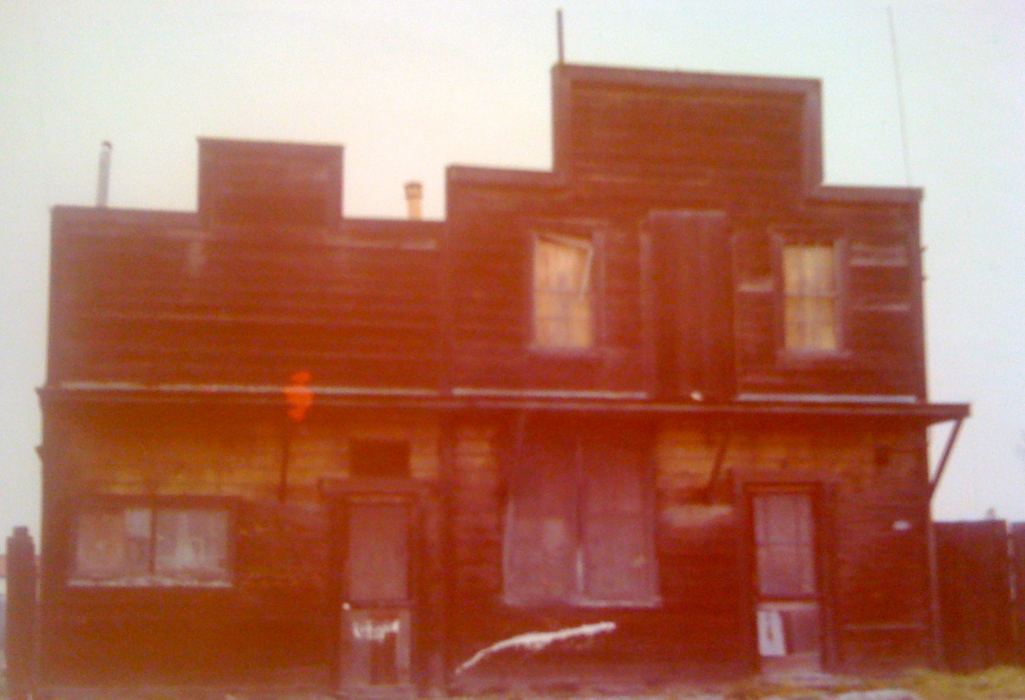 Western Building